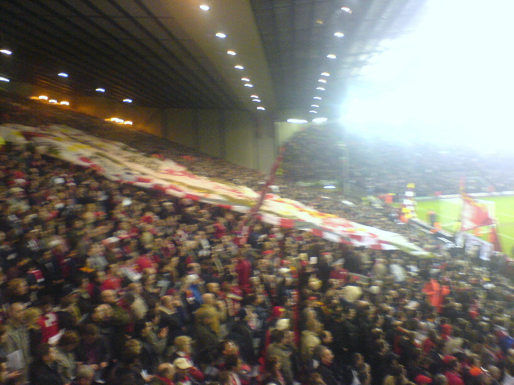 Anfield Road, The Kop